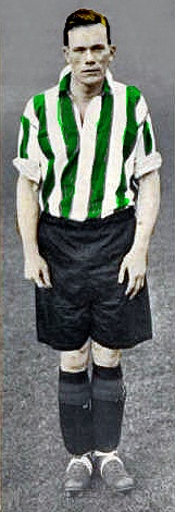 A coloured in version of this photo (File:Jimmy-dunne.jpg) that I coloured myself using an external program.